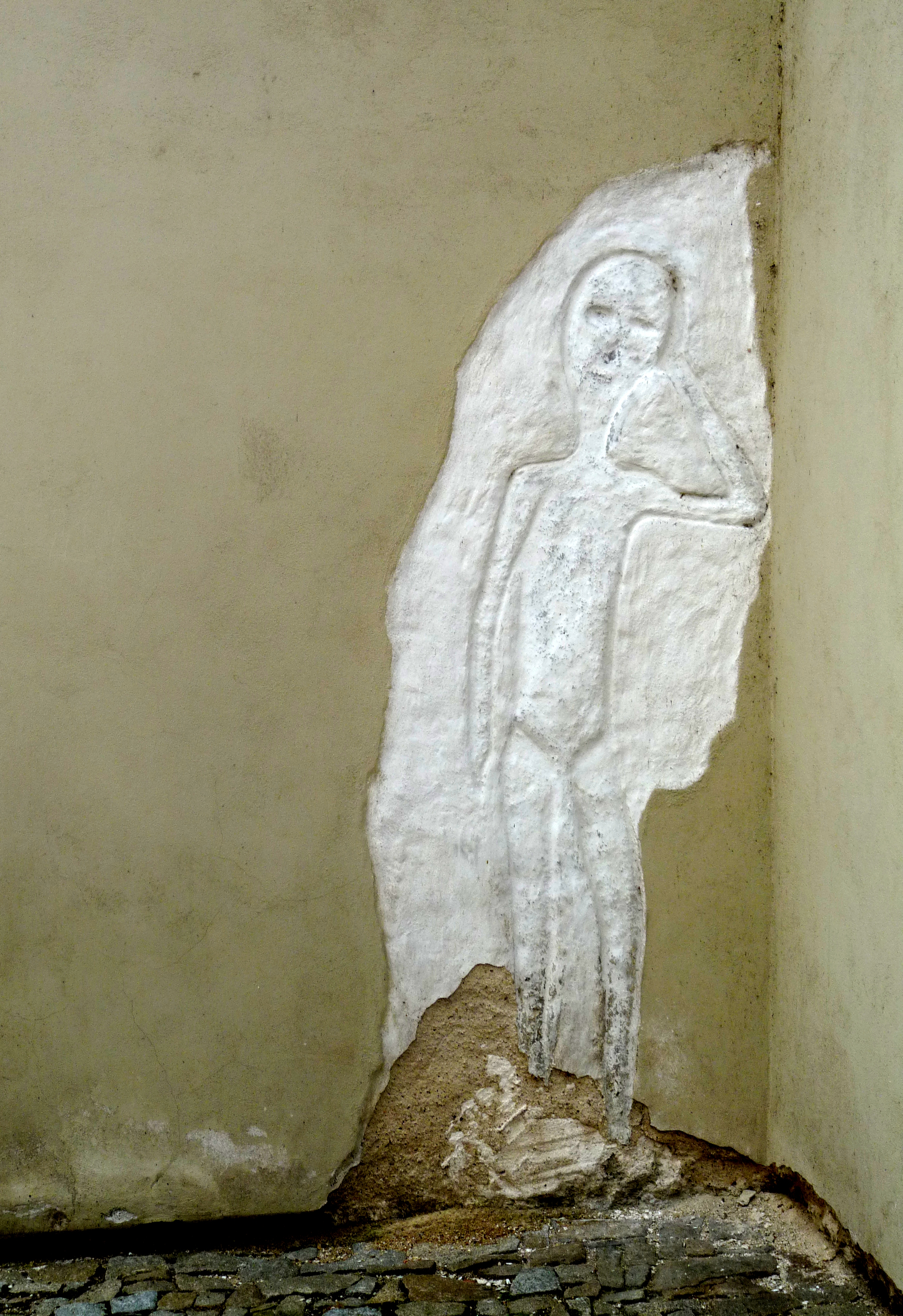 Work of art depicting a Jew who survived the holocaust in the Jewish Quarter protected by UNESCO in Třebíč (Trebitsch), Vysočina Region, Czech Republic.